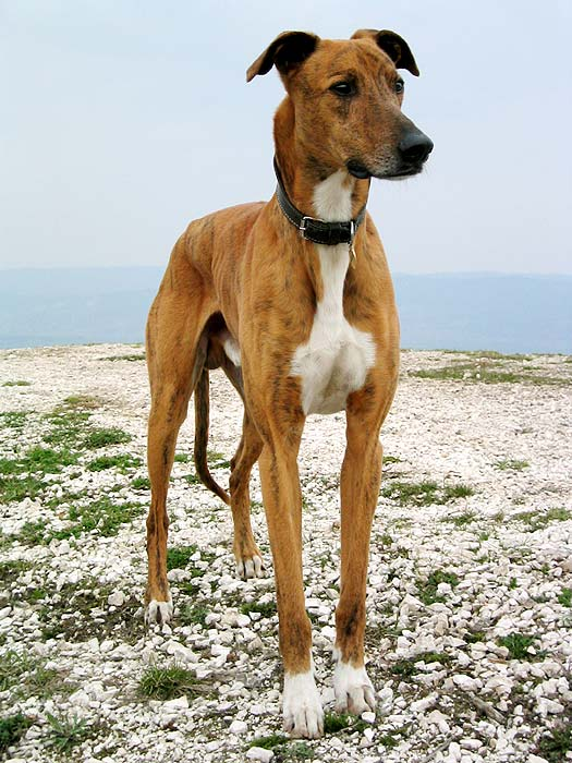 Hungarian Greyhound, Magyar Agár